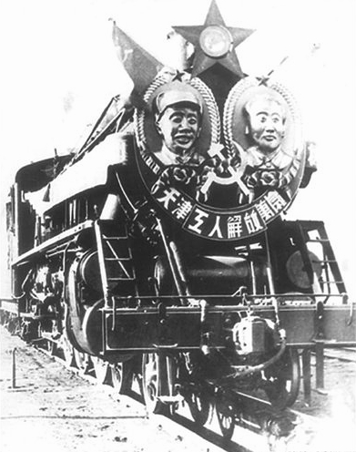 A repaired locomotive from Tangshan, China.